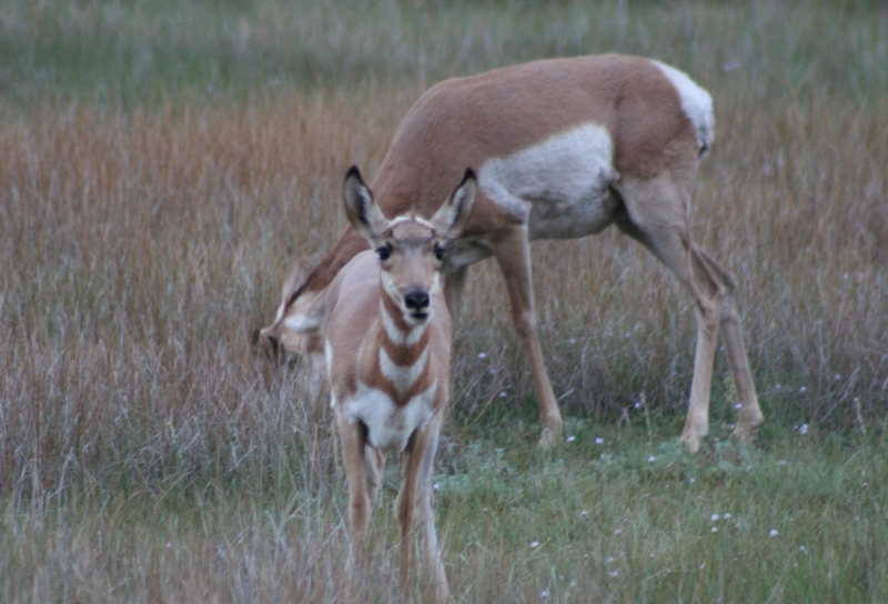 Two pronghorn antelopes at Bryce Canyon National Park